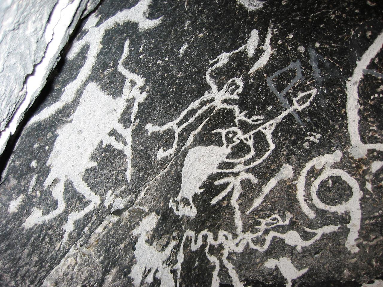 Petroglyph of the prehistoric, flute playning shamanic symbol "Kokopelli" in the "Rio Grande Style" of the ancestral pueblo culture after the year 1300 AD; taken at Mortendad Cave near Los Alamos, NM, USA